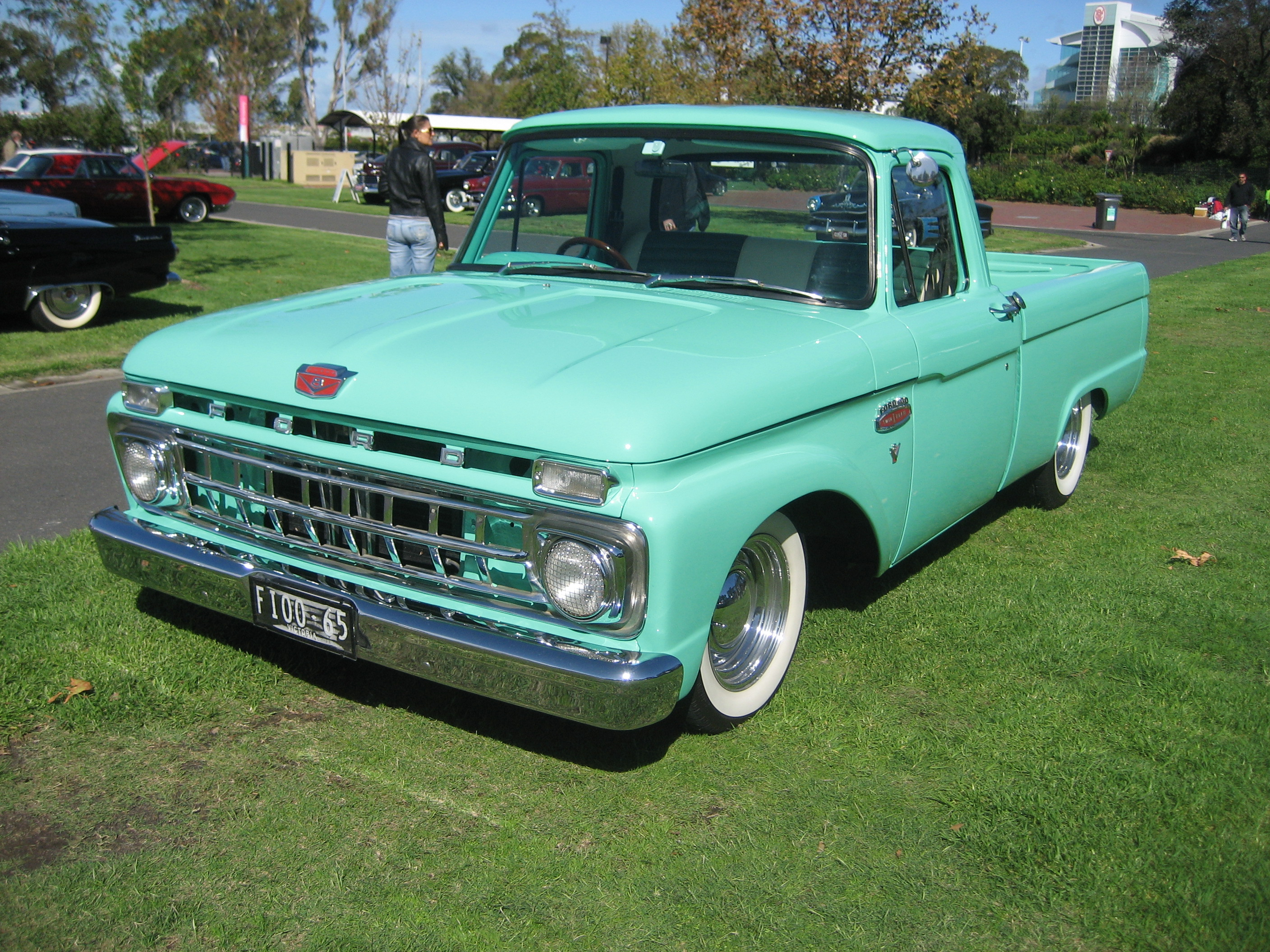 Engines; 240 and 300 6 cyl or 352 FE V8